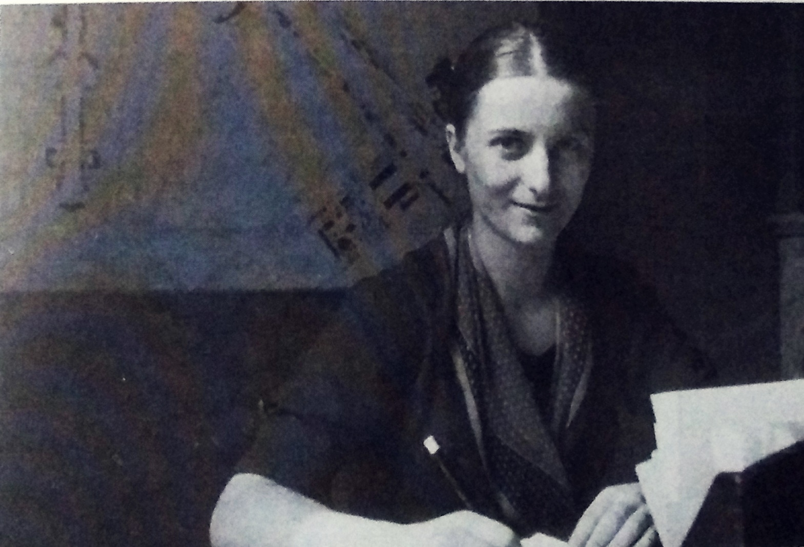 Veda Zagorac